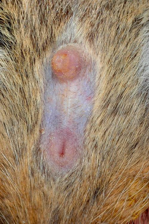 Male genitalia of Octodon degus